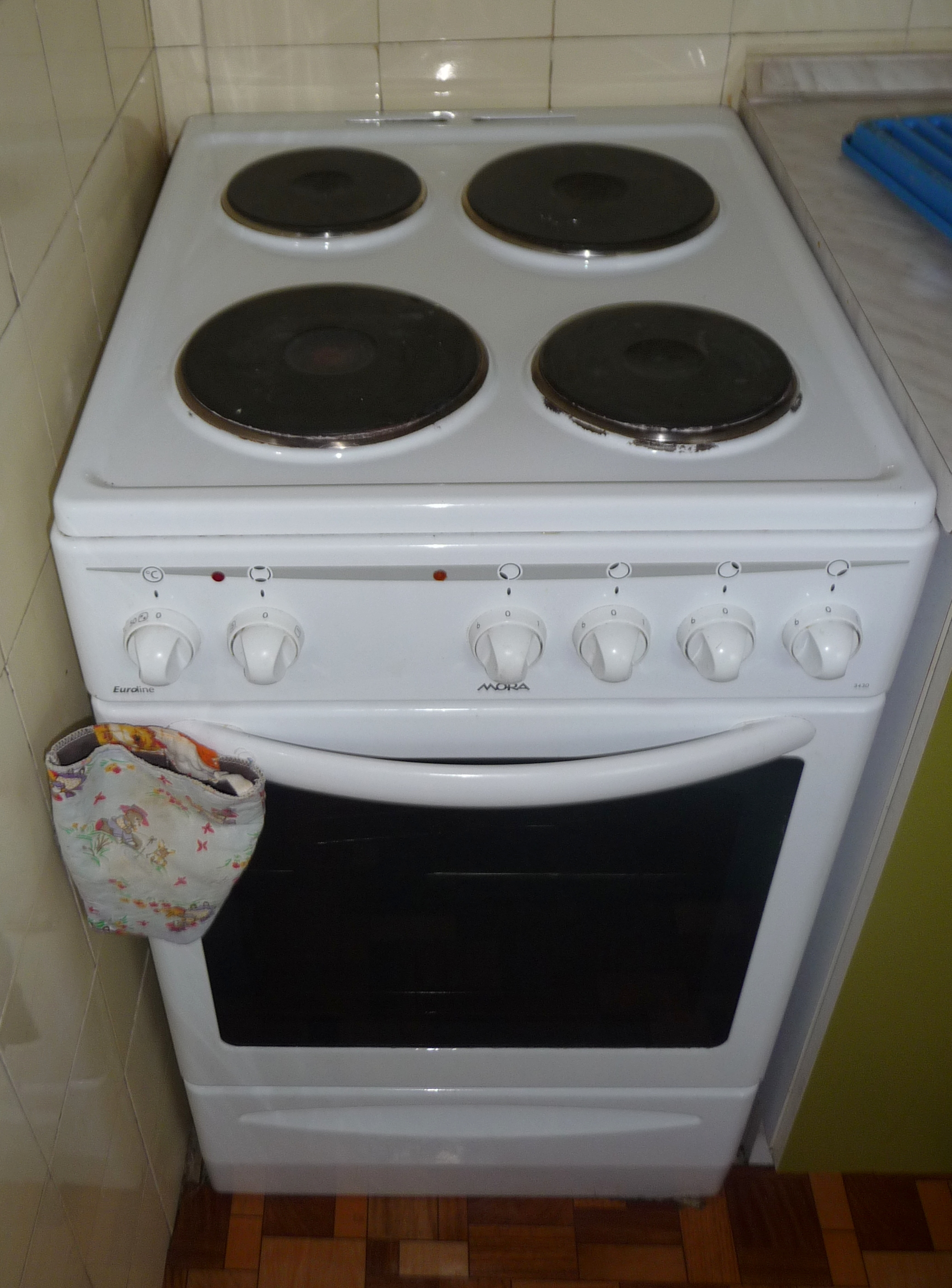 Electrical stove Mora EUROLINE 3430